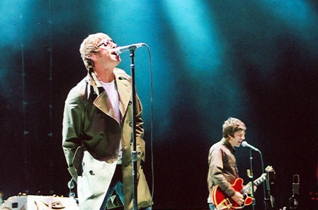 Liam and Noel Gallagher of Oasis performing in San Diego on September 18, 2005.